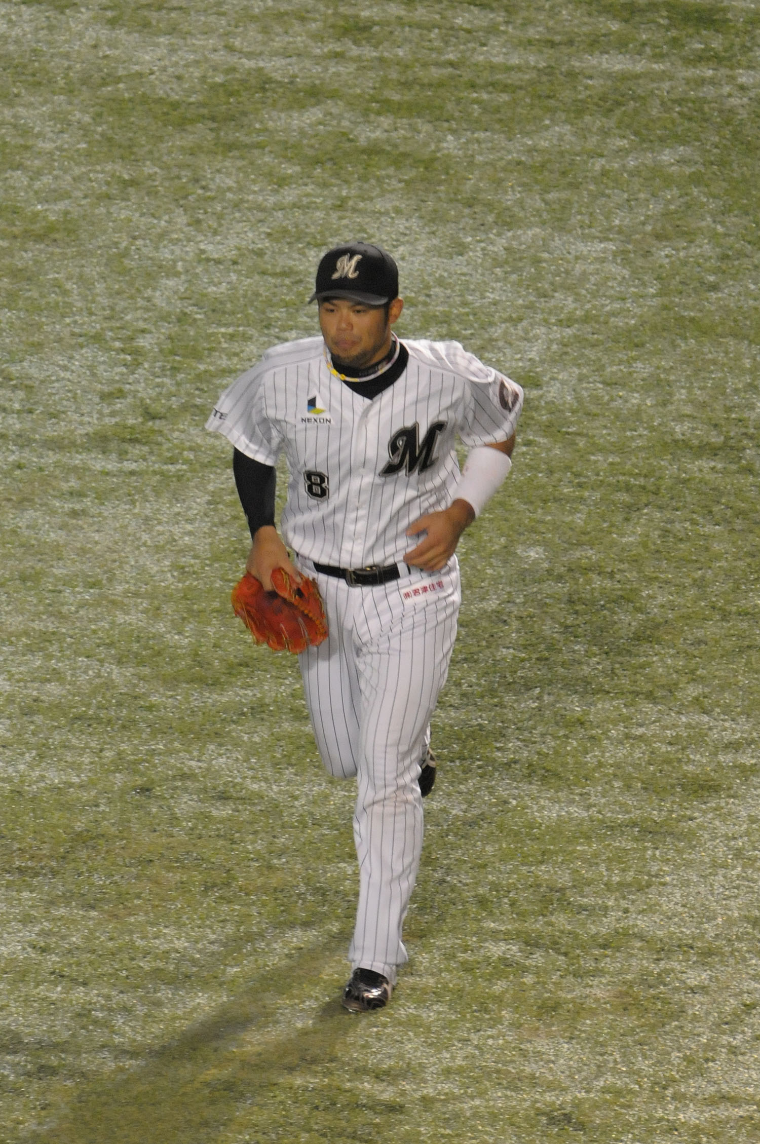 Toshiaki Imae, infielder of the Chiba Lotte Marines, at Chiba Marine Stadium.